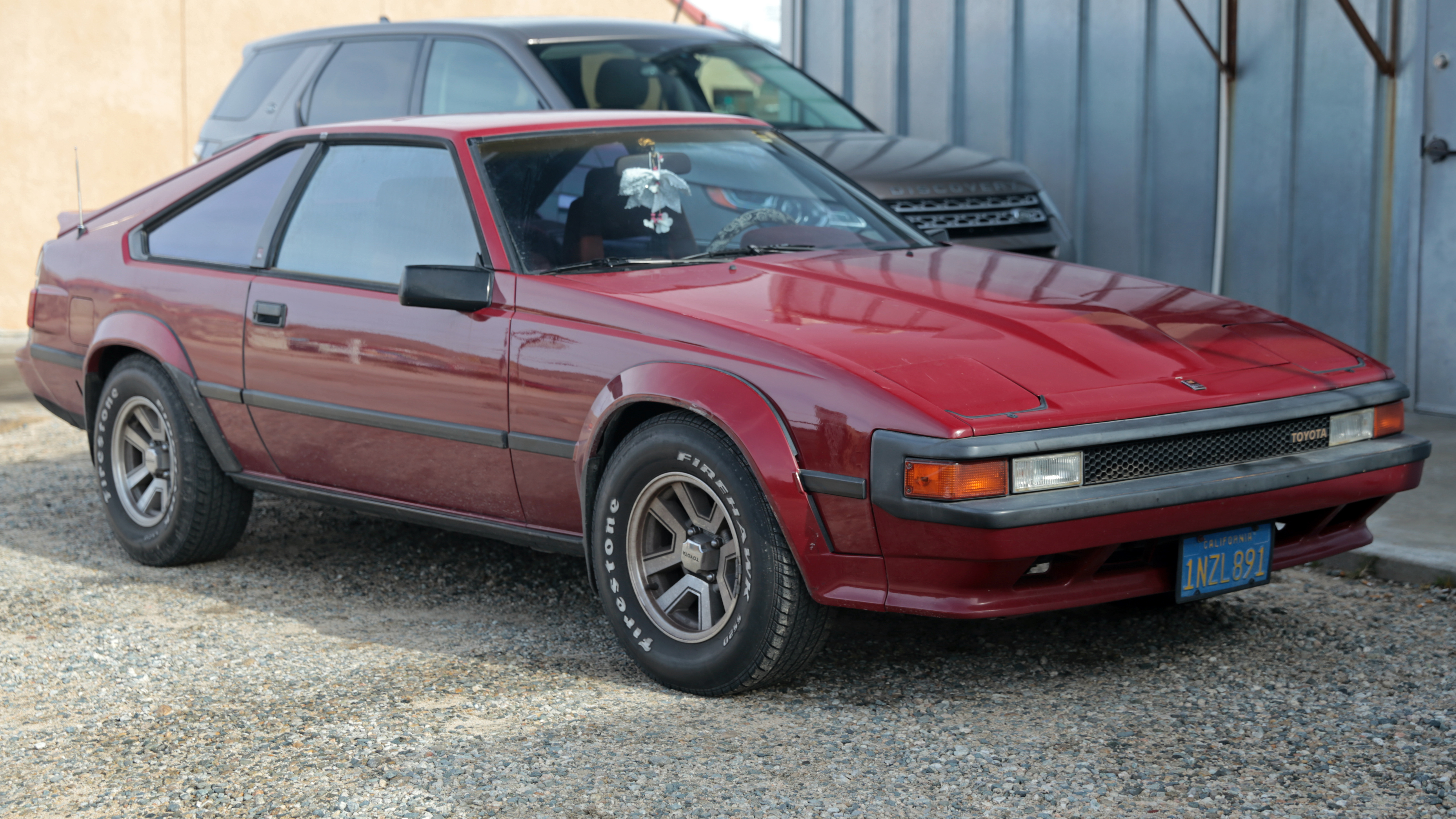 A 1986 Toyota Supra (MA67) in Yucca Valley, CA.